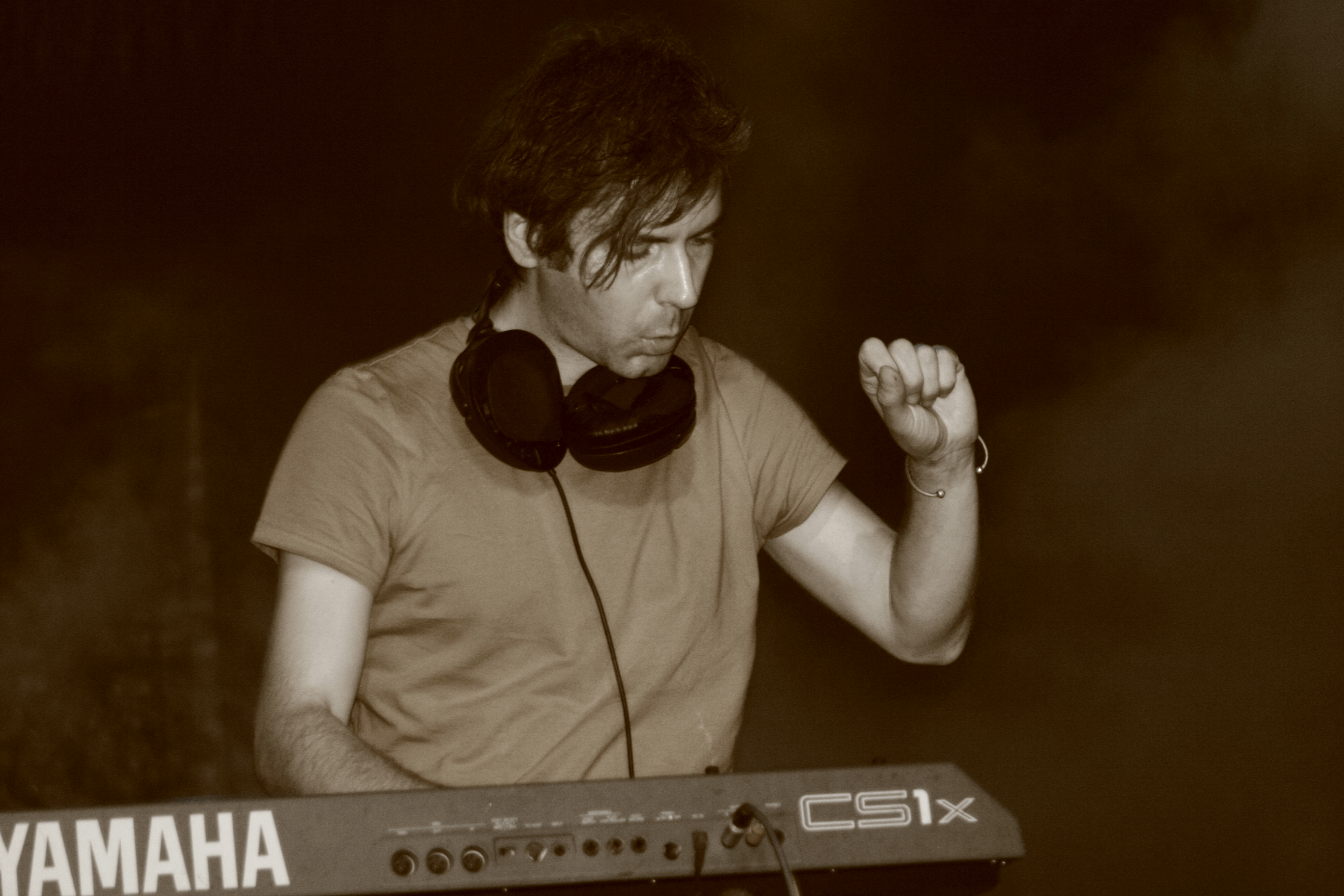 Castle Party 2007